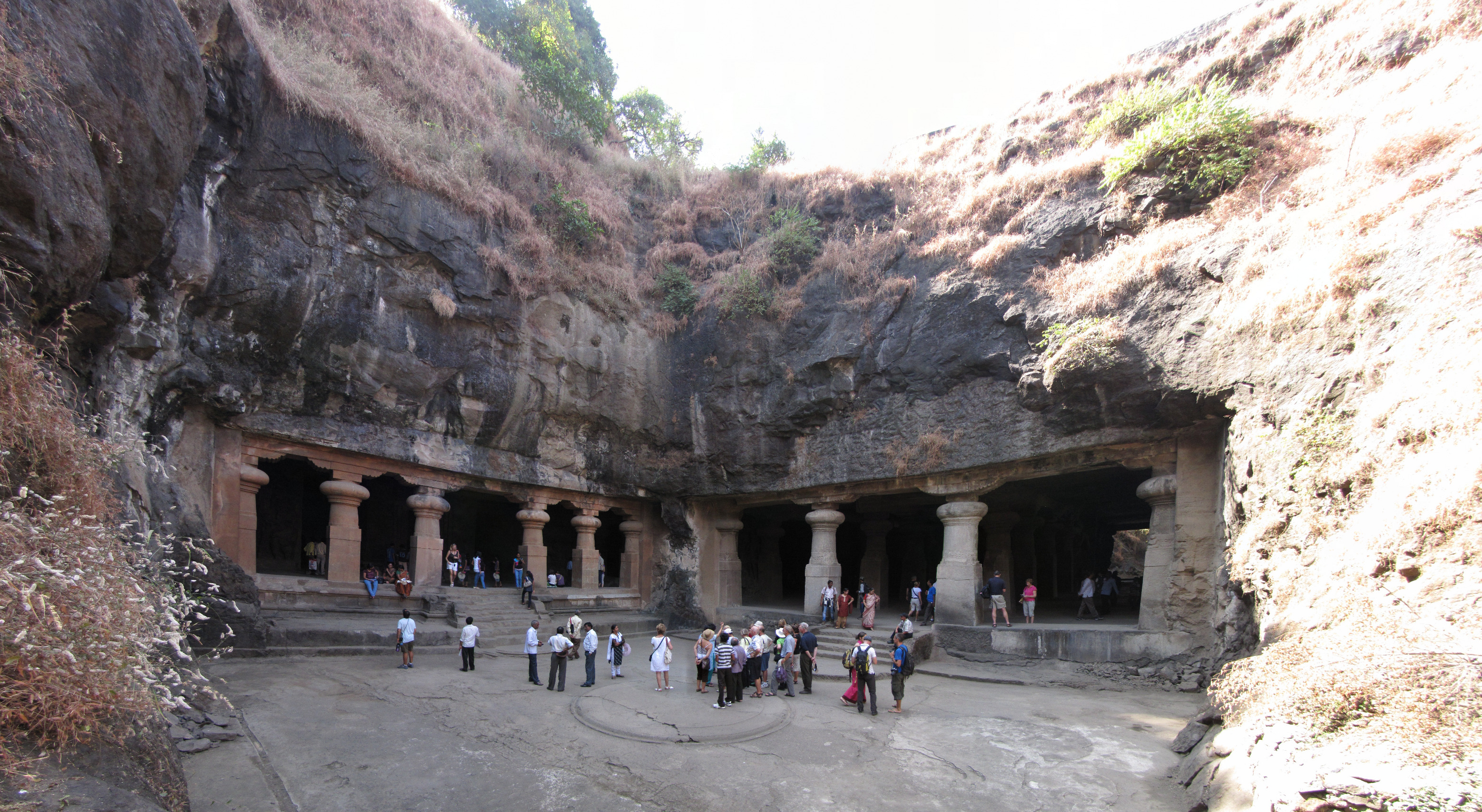 Cave 1 east entrance (right door) middle courtyard connecting the east-end cave (left door). A panoramic view